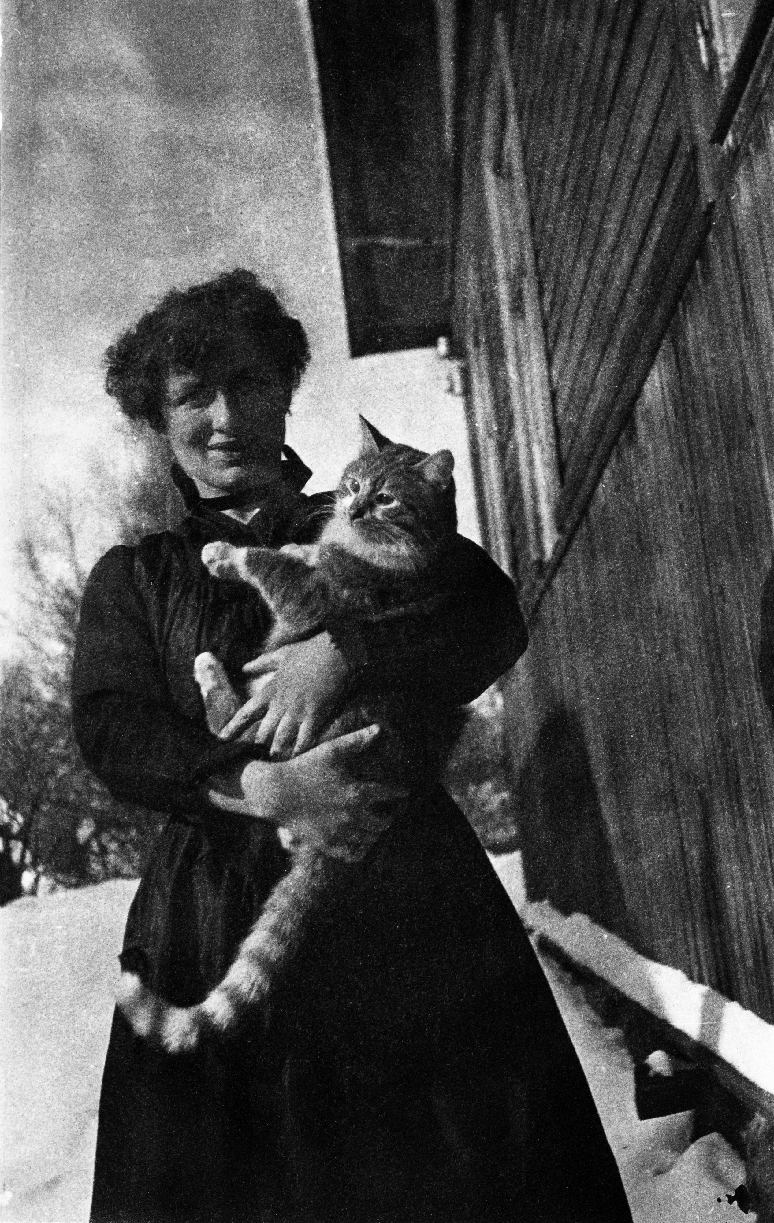 Edith Södergran med Totti. Edith Södergrans samling Signum: slsa566_396 Foto: Okänd / Unknown Svenska litteratursällskapet i Finland